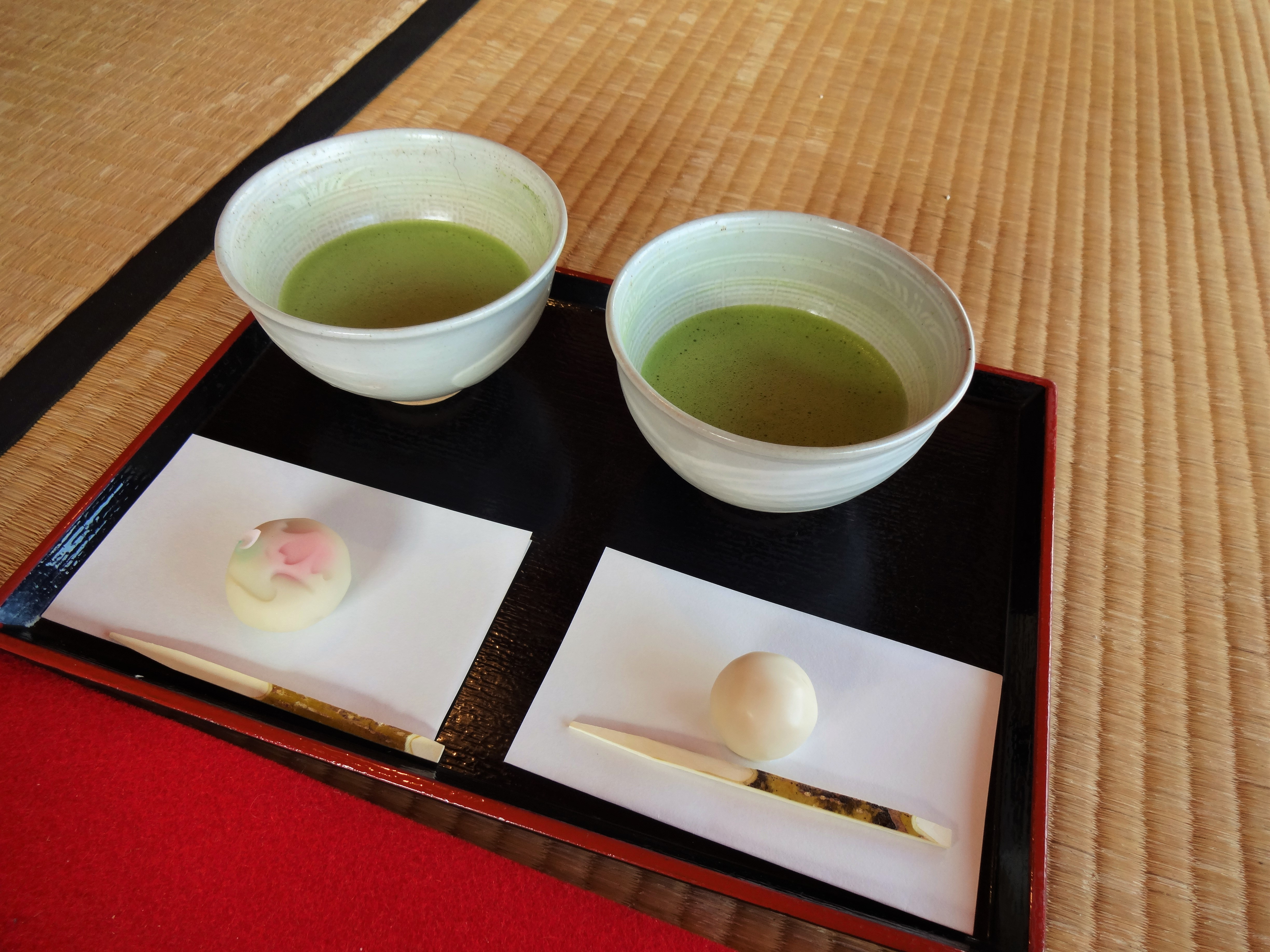 Japanese tea tray with two cups of matcha along with some sweets during a tea ceremony in Hamarikyu garden in Tokyo, Japan